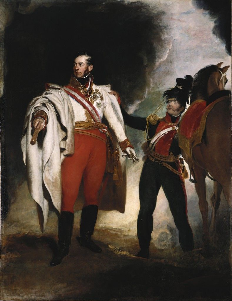 Karl Philipp, Prince of Schwarzenberg (1771-1820)